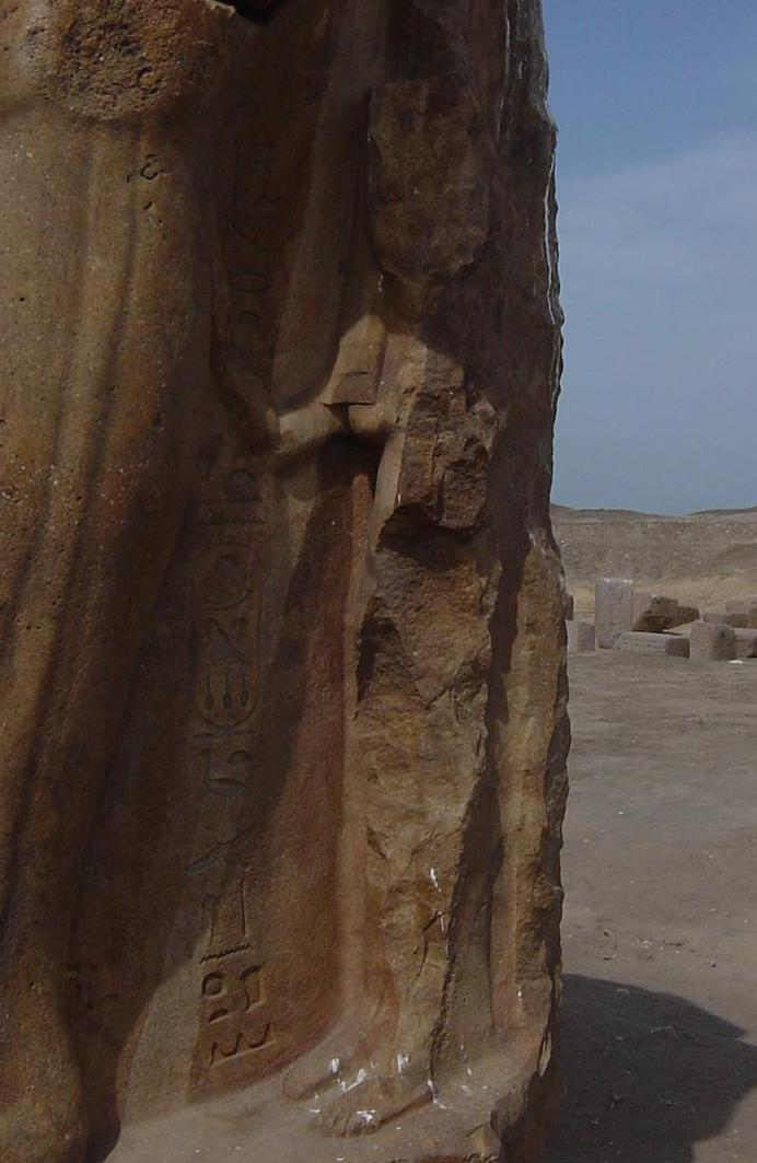 Statue of Maathorneferure, wife of Ramesses II at Tanis, Egypt.